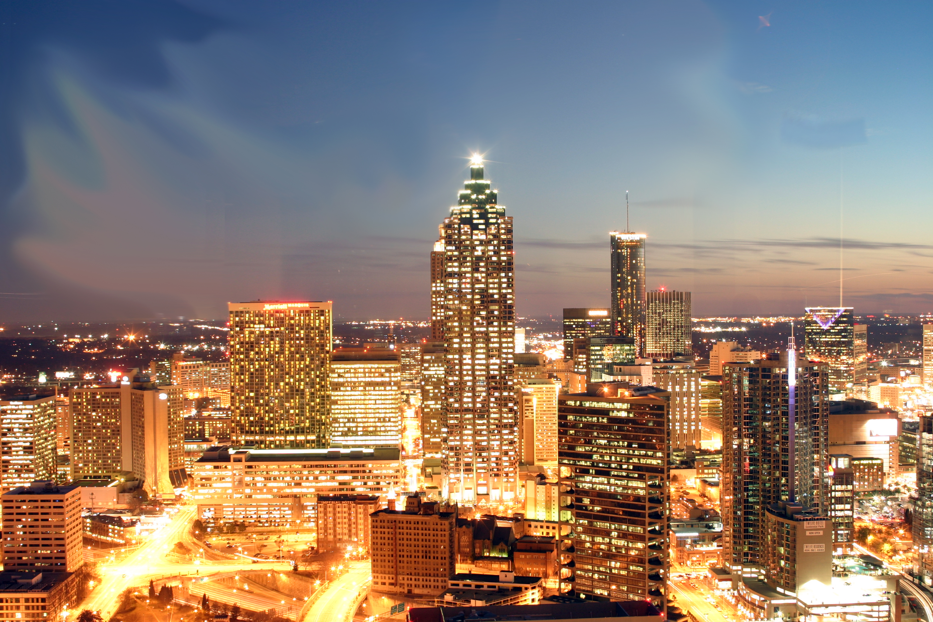 City of Atlanta. This photo was taken by a Canon Digital SLR Rebel, with Sigma 28-200mm Aspherical IF lens. Taken with 20 second shutter exposure.